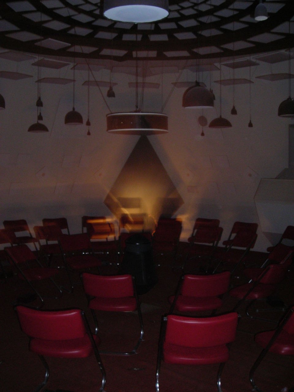 Inside the theater for Audium in San Francisco (a sound art event)